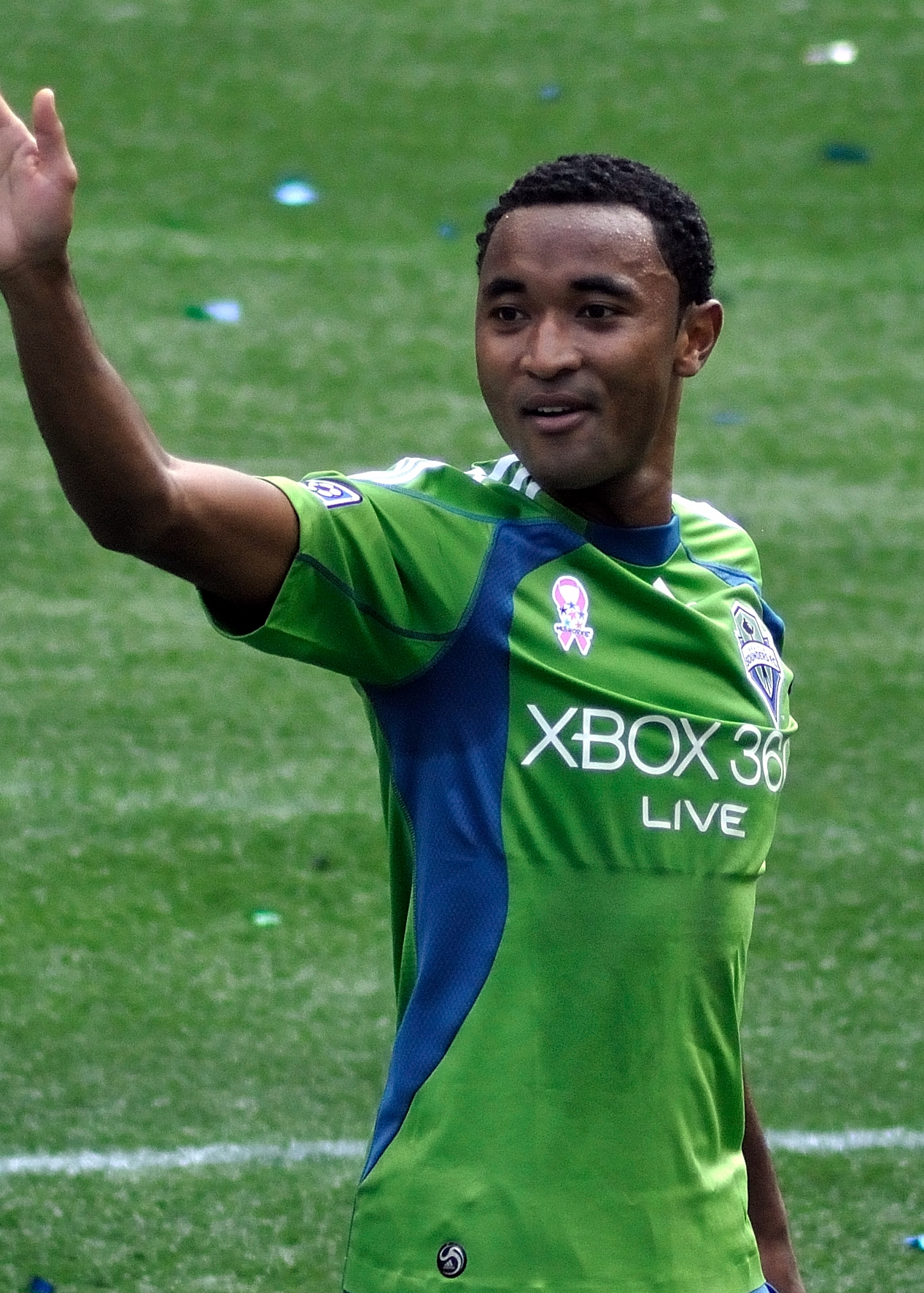 James Riley of Seattle Sounders FC on October 2, 2010 against Toronto FC.